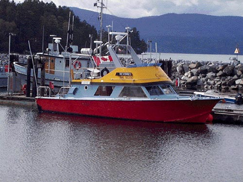 " One of the ships used to perform acoustic swath (mapping) surveys of the SPARS reefs, called the MV Revisor (a Canadian Hydrographic Service vessel)."